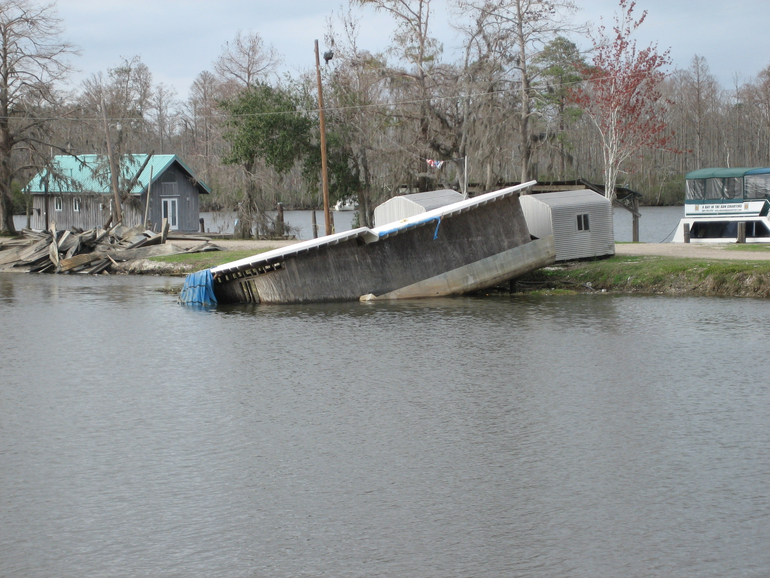 Aftermath of Hurricane Katrina: Partially sunk Houseboat on inlet off the Tchefuncte River just east of Madisonville, Louisiana.